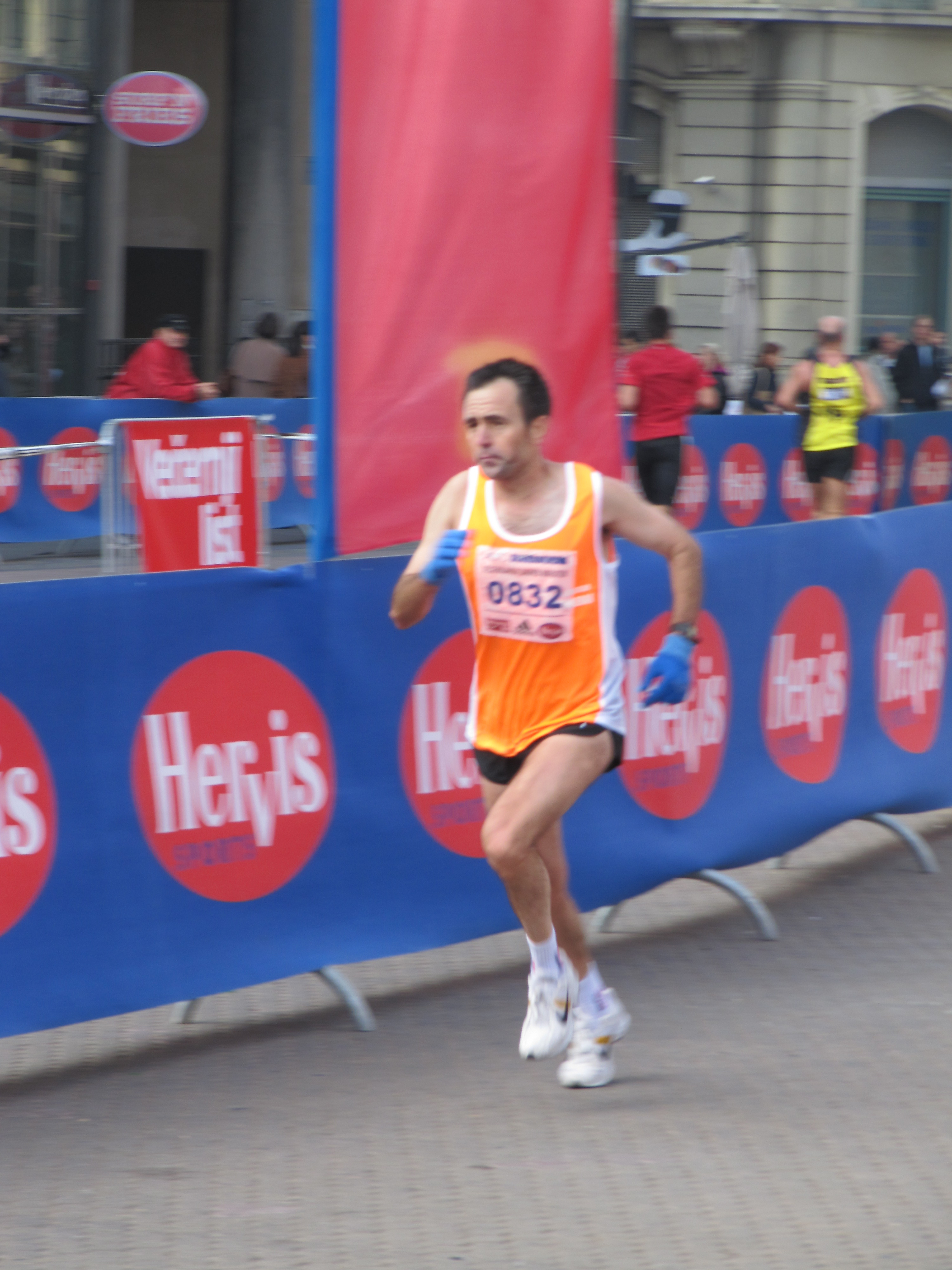 Drago Paripović of Croatia en route to 5th place in the half marathon race at the 2010 Zagreb Marathon.